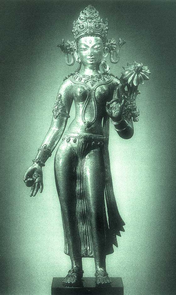 Green Tara, Nepal, fourteenth century. Gilt copper inset with precious and semiprecious stones, H20.25 in, (51.4 cm). The Metropolitan Museum of Art, Louis V. Bell Fund, 1966, 66.179.